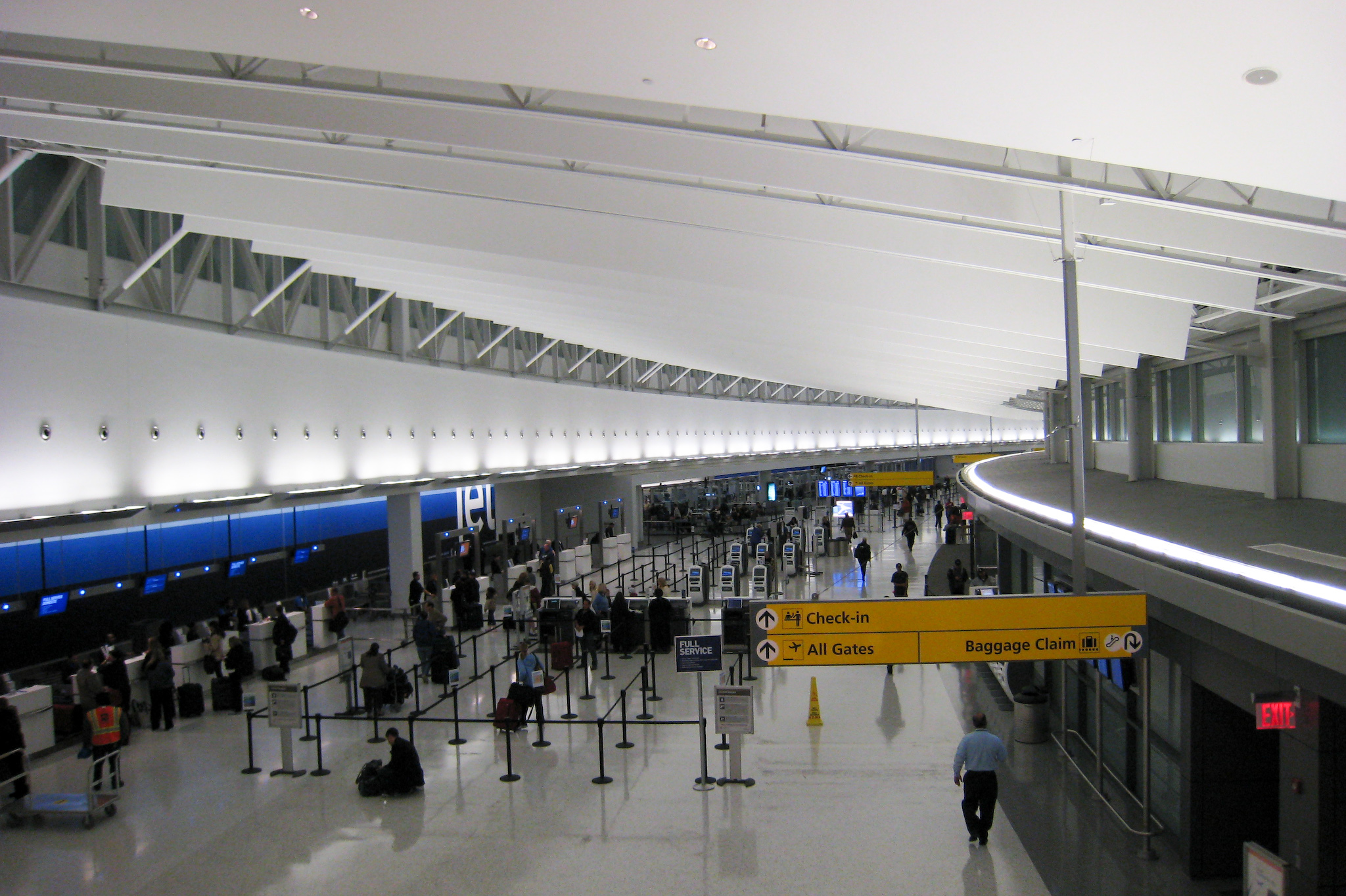 Ticketing/Check-In area for Terminal 5's only airline at JFK International, JetBlue Airways.